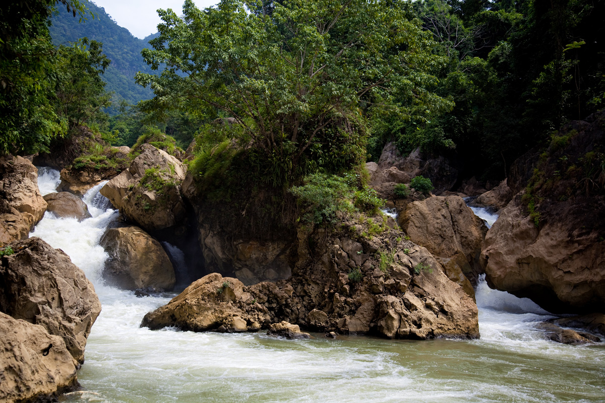 Dau Dang Waterfalls Ba Be District, Bac Kan Province, Vietnam